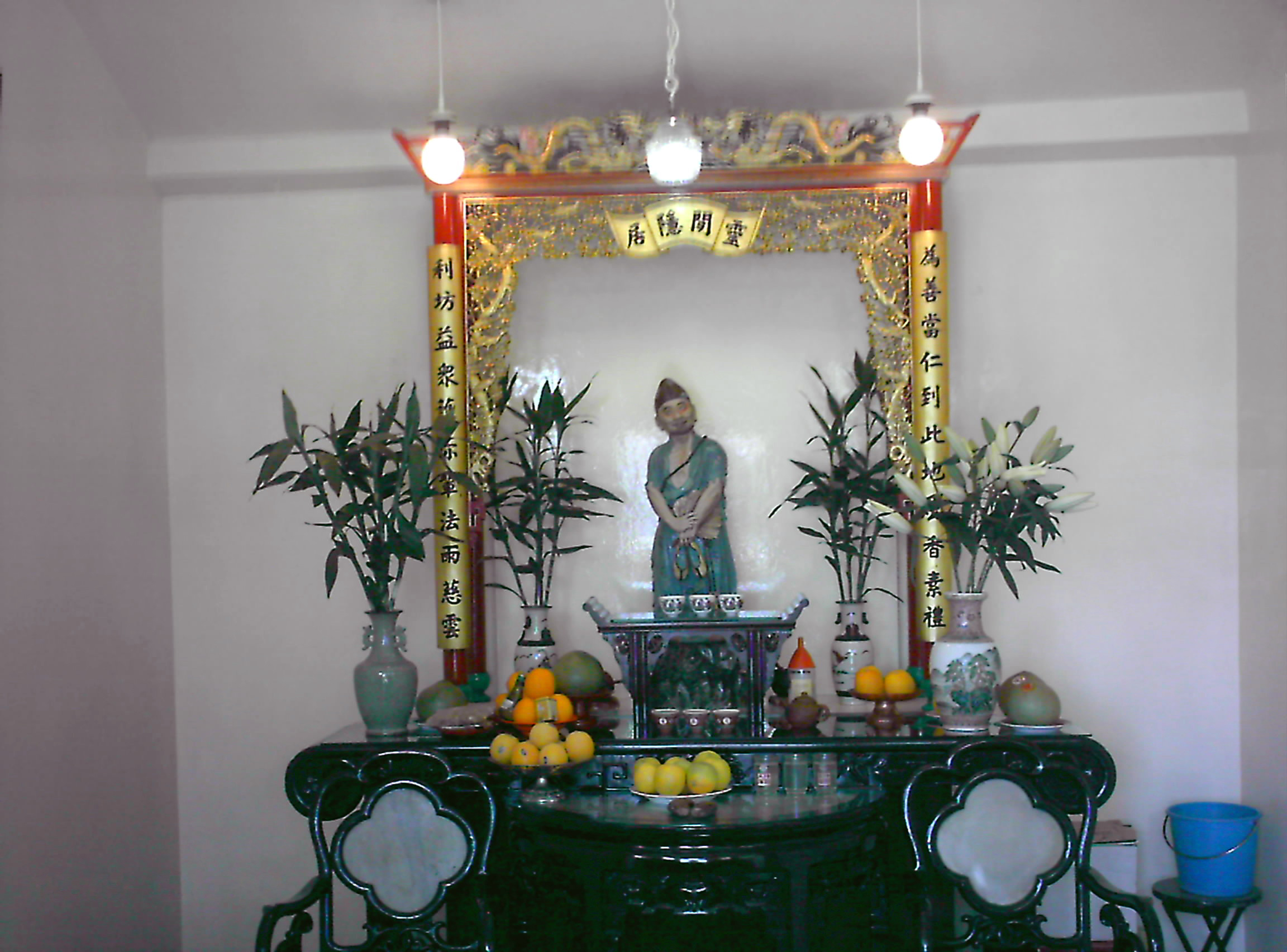 Jigong Statue at Jigong Hall, Hong Kong and Kowloon Fuk Tak Buddhist Association 中文（香港）: 港九福德念佛社，活佛堂，濟公雕像